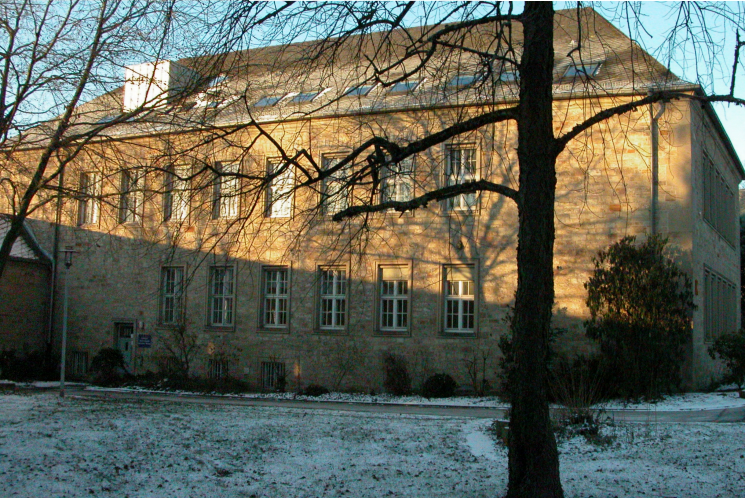 University of applied sciences Trier, historical buildings - Business school